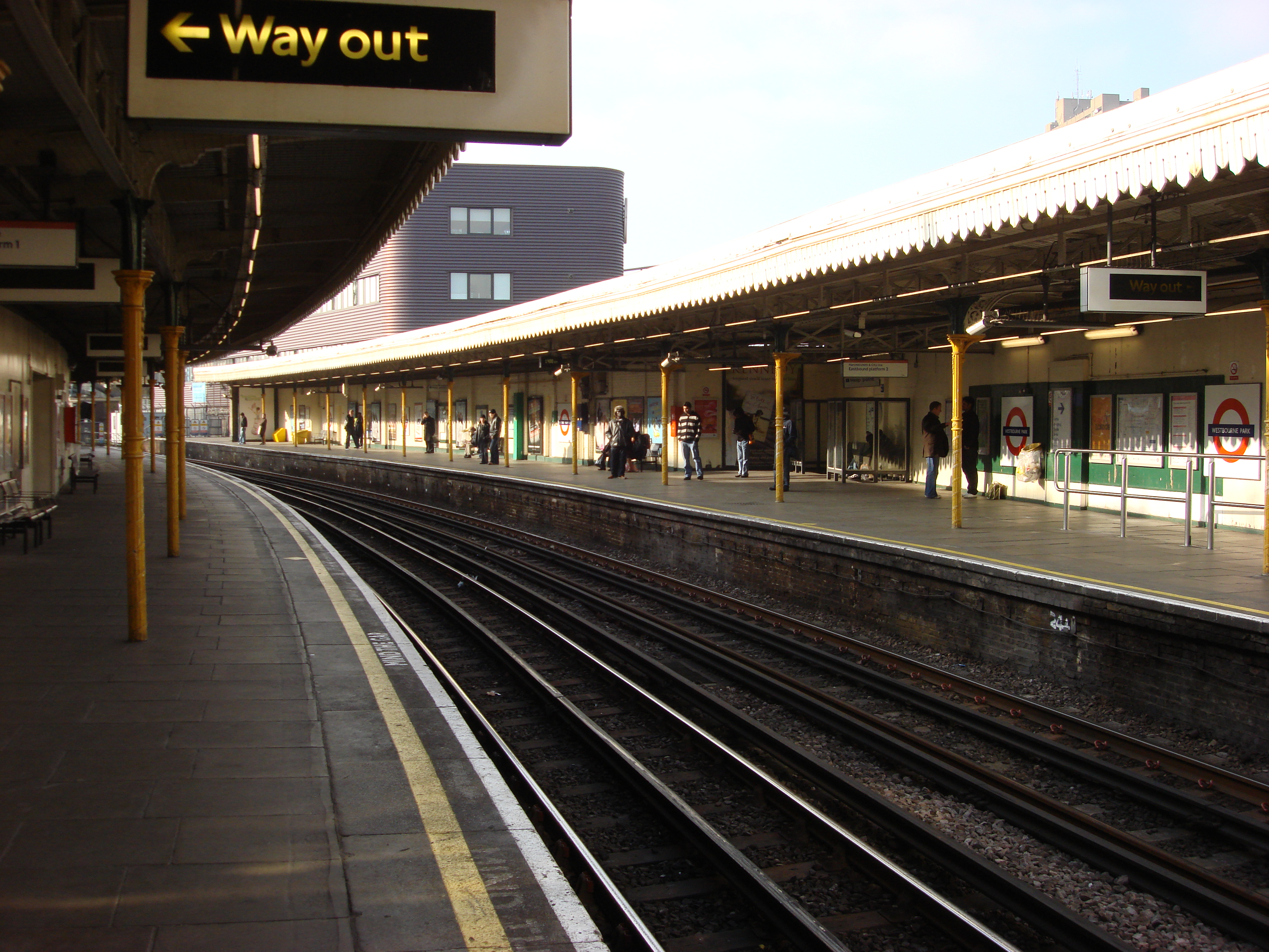 Westbourne Park tube station